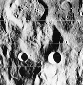 Sundman lunar crater - Lunar Orbiter IV image IV 188-H2